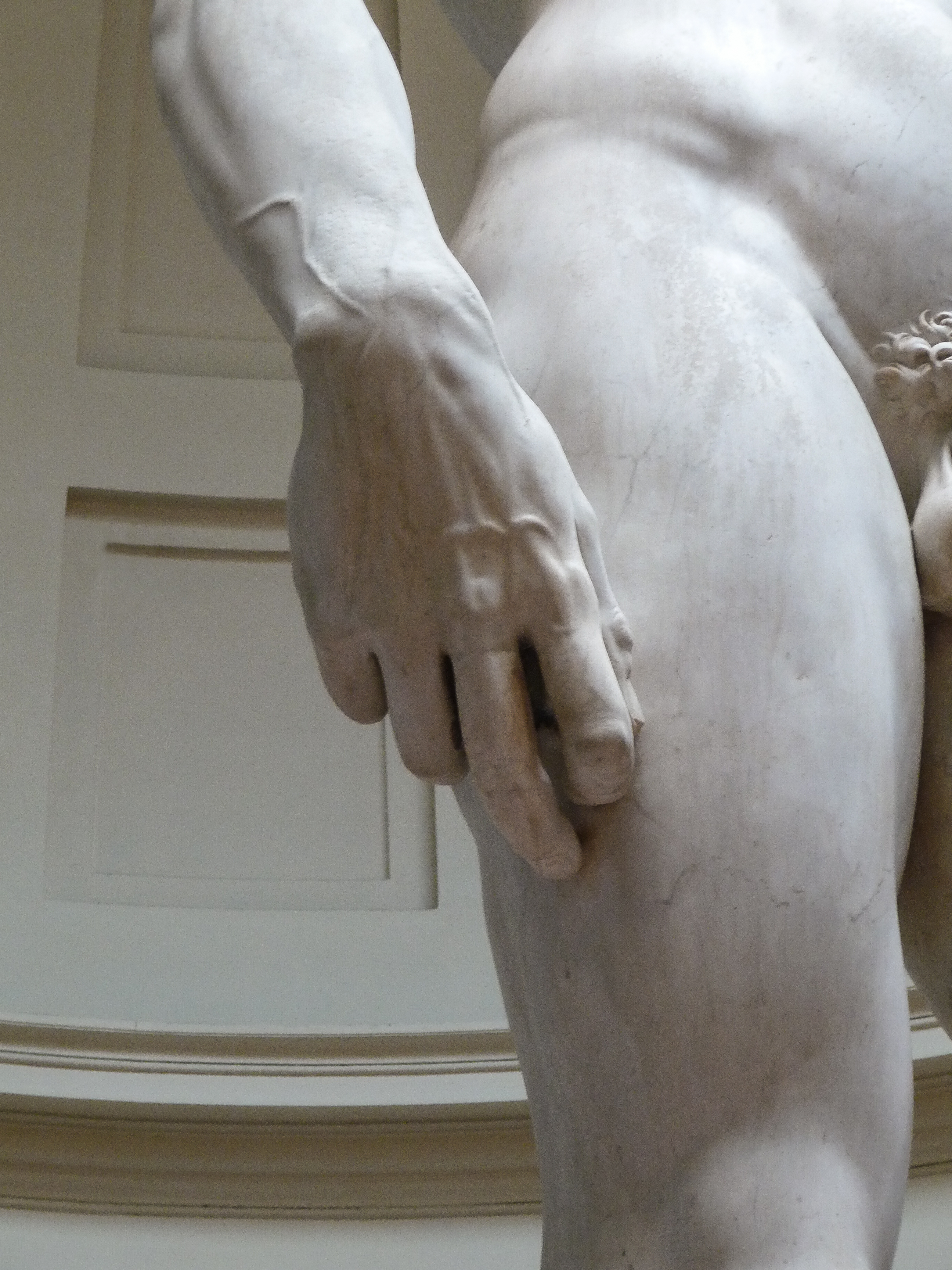 Michelangelo's David, 1501-1504, Galleria dell'Accademia (Florence)